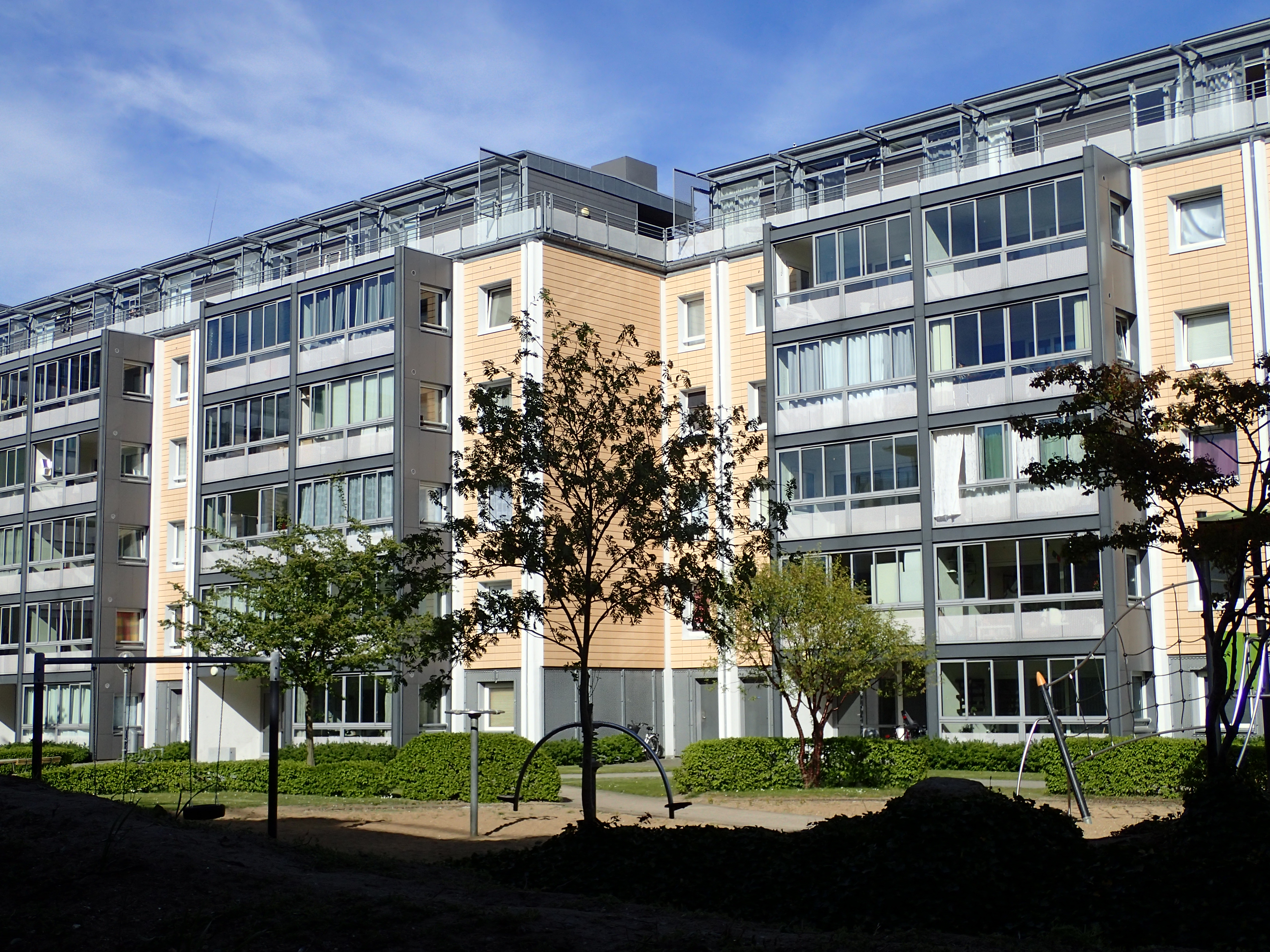 Fjældevænget